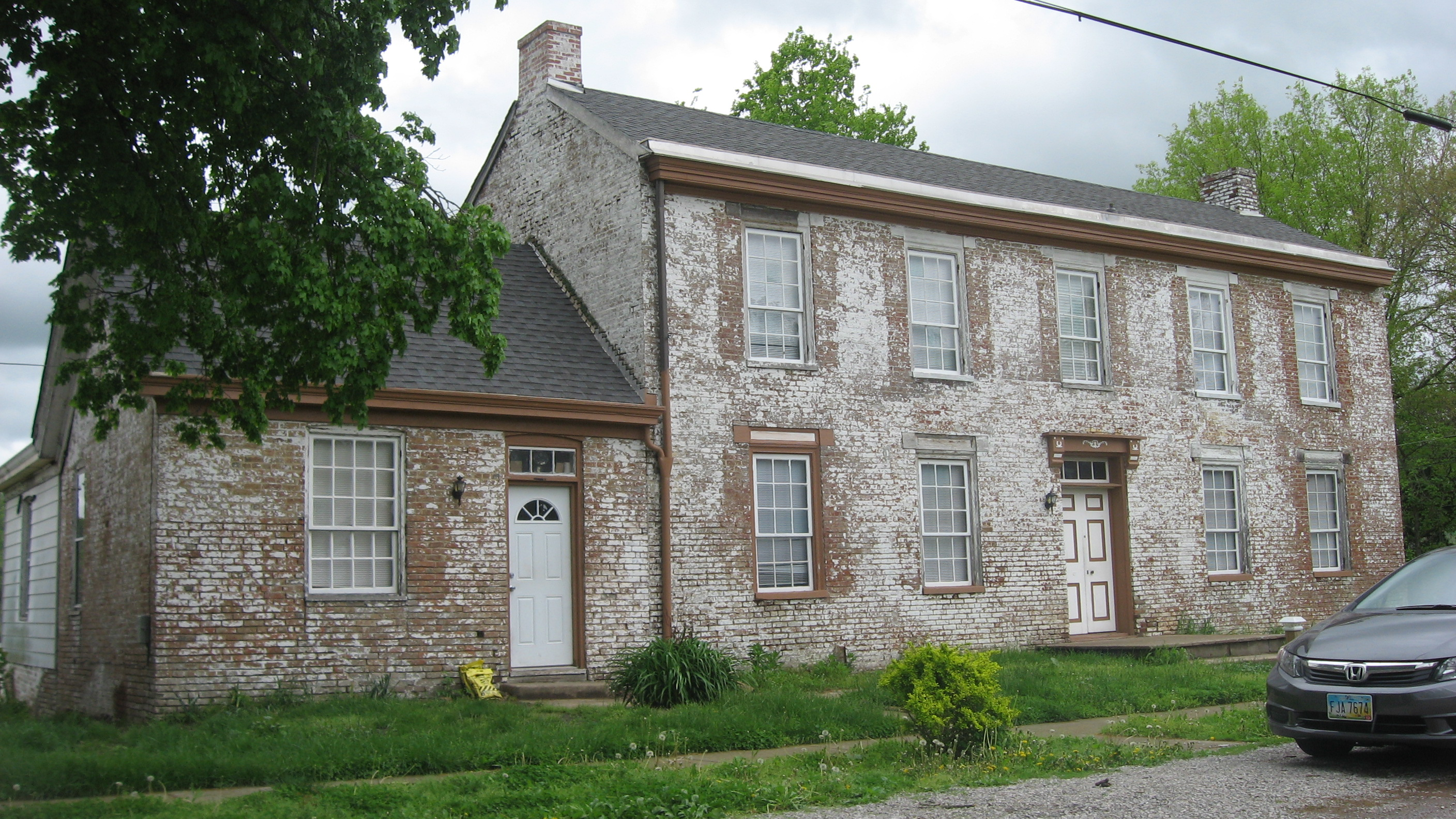 Front and western end of the Dr. Lucy Dupuy Montz House, located at 200 W. High Street in Warsaw, Kentucky, United States. Built in 1825, it is listed on the National Register of Historic Places, and it is part of a Register-listed historic district, the Warsaw Historic District.